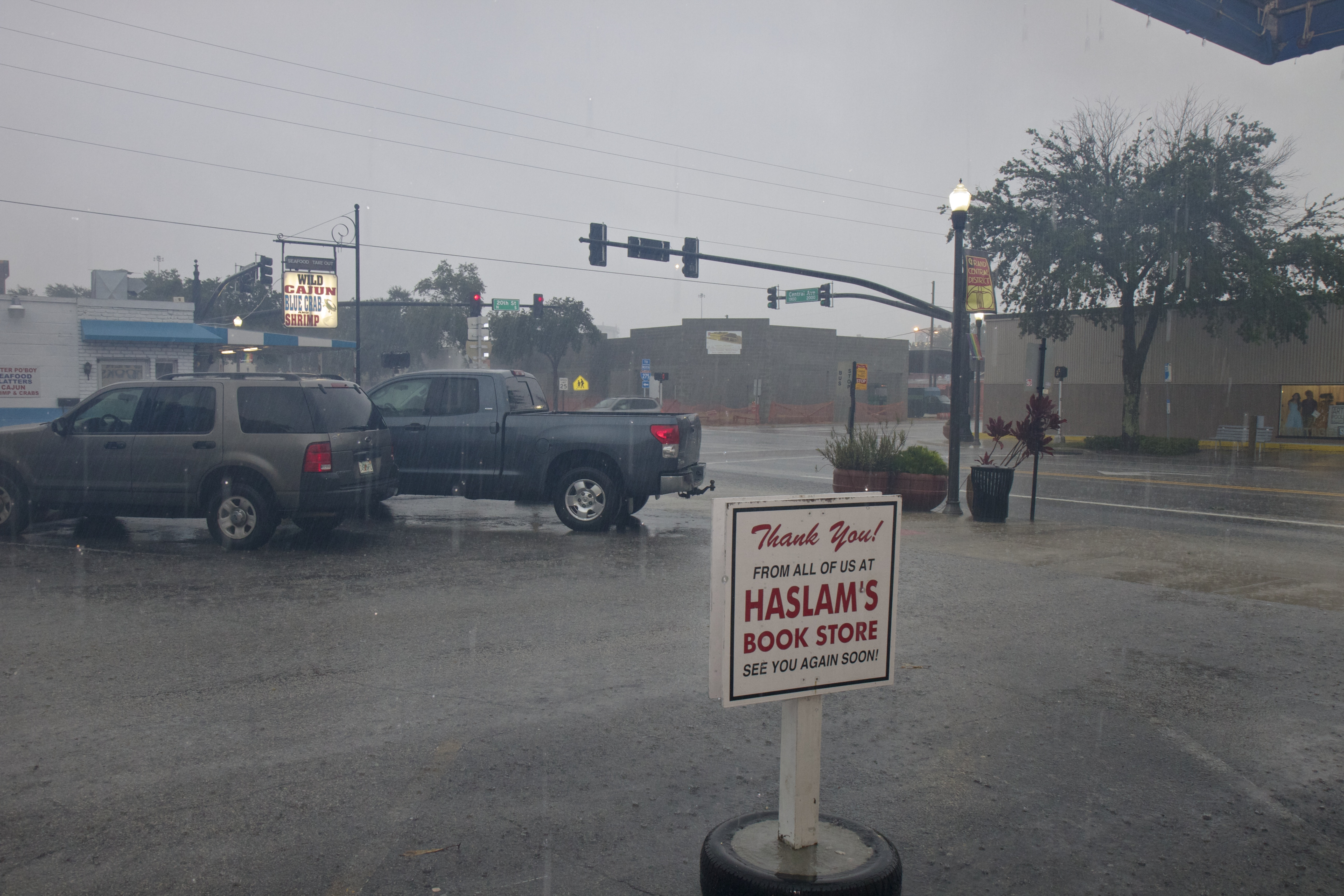 It started raining around 17:30 yesterday evening. The rain and wind picked up significantly around 21:00 that night, which woke me up several times during the night. Got out of bed around 09:00 this morning, and while getting ready for work I though (wryly) to myself, "Man, it's really raining. Wonder if I missed news about a tropical storm again." Checking the doppler on my phone confirmed that, yes, I don't pay very much attention to the local news.